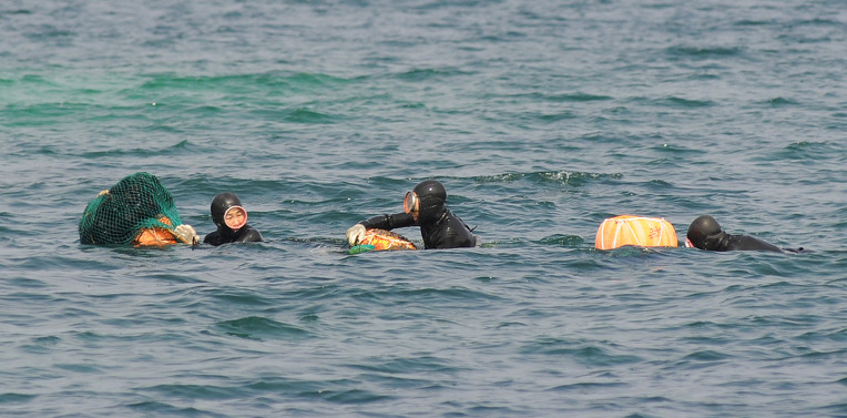 haenyeo (sea women)